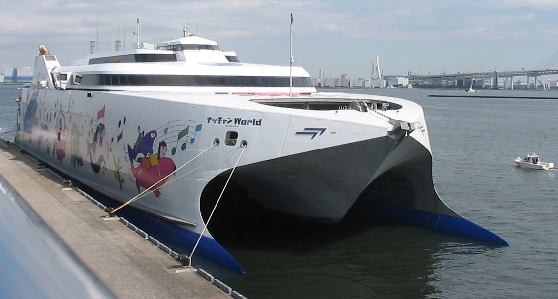 The bow of WavePiercer High speed car ferry "Natchan World". at OSANBASHI YOKOHAMA INTERNATIONAL PASSENGER TERMINAL. Yokohama City,Kanagawa Pref,Japan. March,7,2009